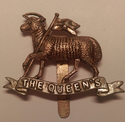 Photo of Queen's Royal Regiment (West Surrey) from personal collection